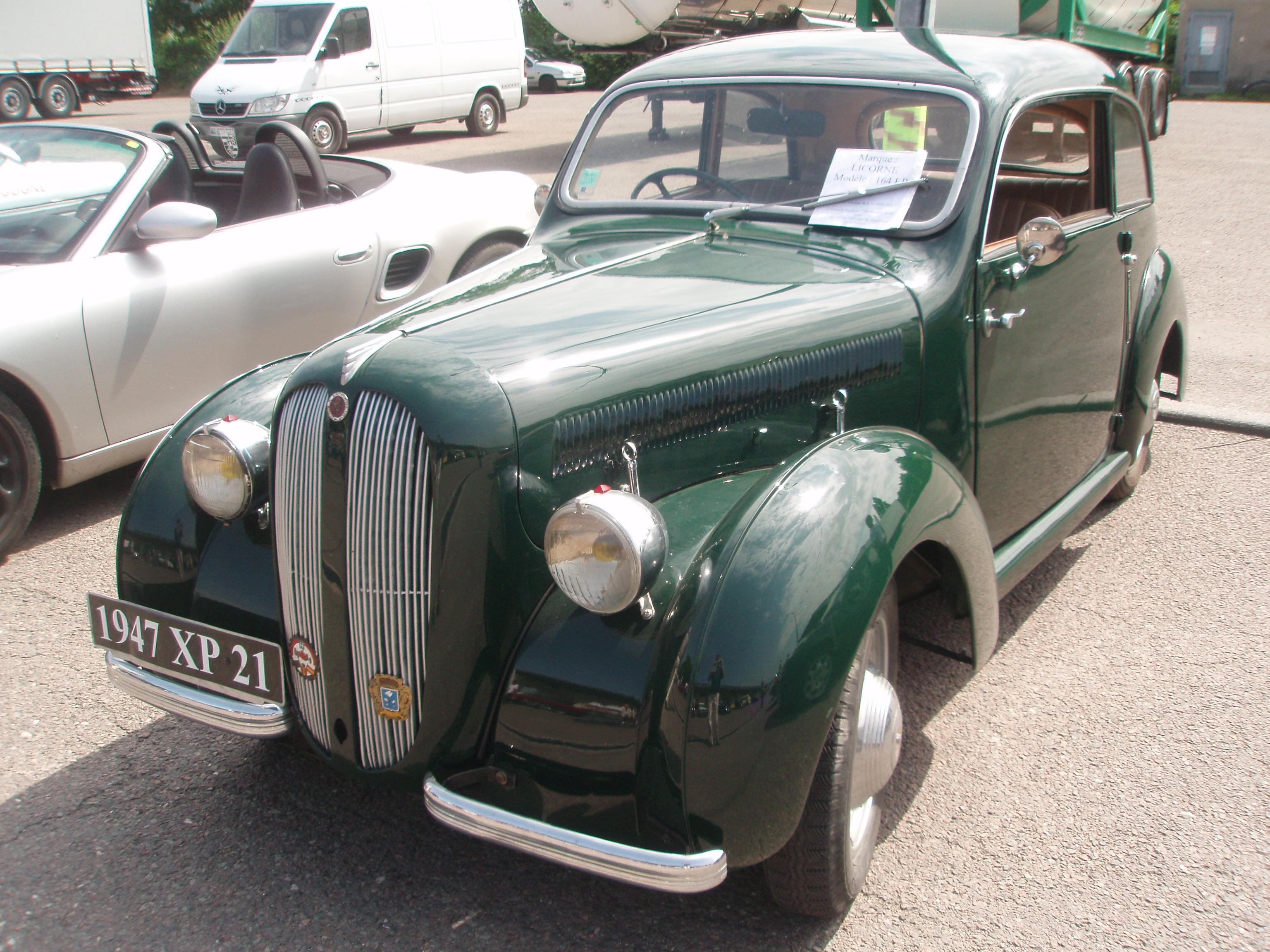 A 1947 La Licorne 164 LR with 1450cc engine. French tax horsepower: 8 CV.